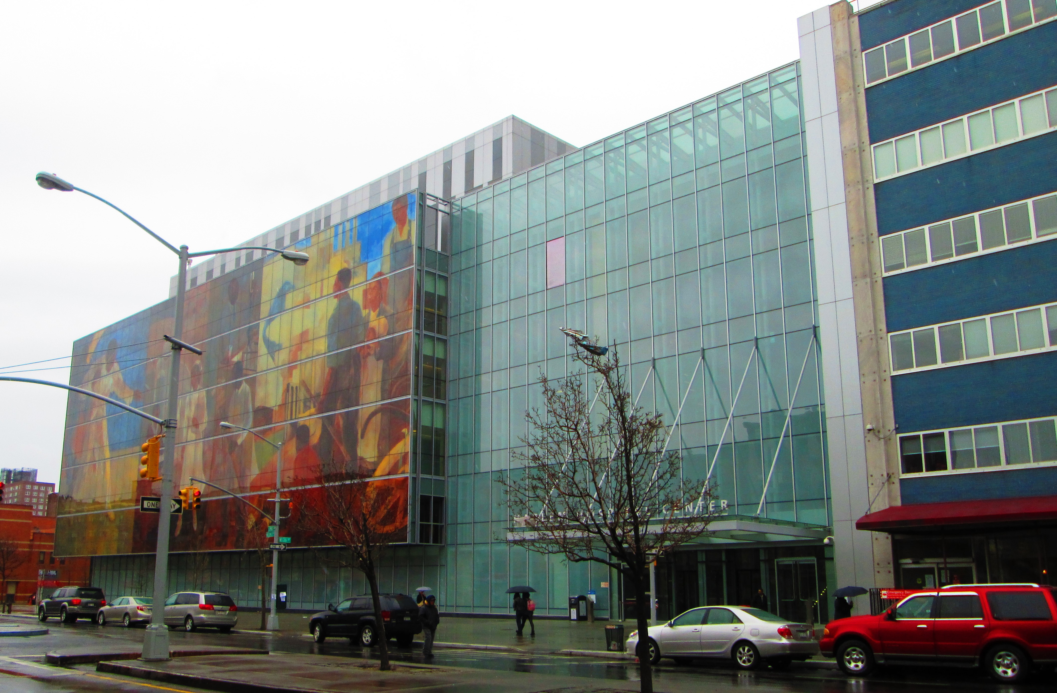 The Harlem Hospital Center is a 272-bed public, municipally owned teaching hospital in New York City founded in 1887. It is located at 506 Lenox Avenue between West 135th and 136th Streets and taking up the entire block to Fifth Avenue in the Harlem neighborhood of Manhattan, New York City. The new pavilion was built in 2012 and was designed by HOK (Hellmuth, Obata + Kassabaum) with Studio JTA. The Lenox Avenue facade features a blow-up of a mural by Vertis Hayes which is part of the hospital's WPA collection of murals. (Source: AIA Guide to NYC (5th ed.))